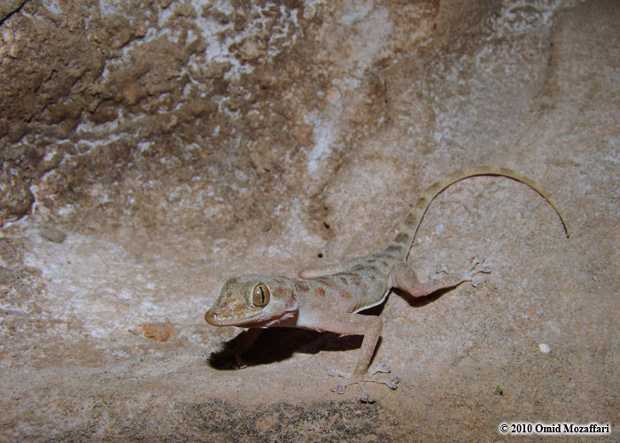 Asaccus granularis in Mahoor berenji (Dezful, Khuzestan, Iran)